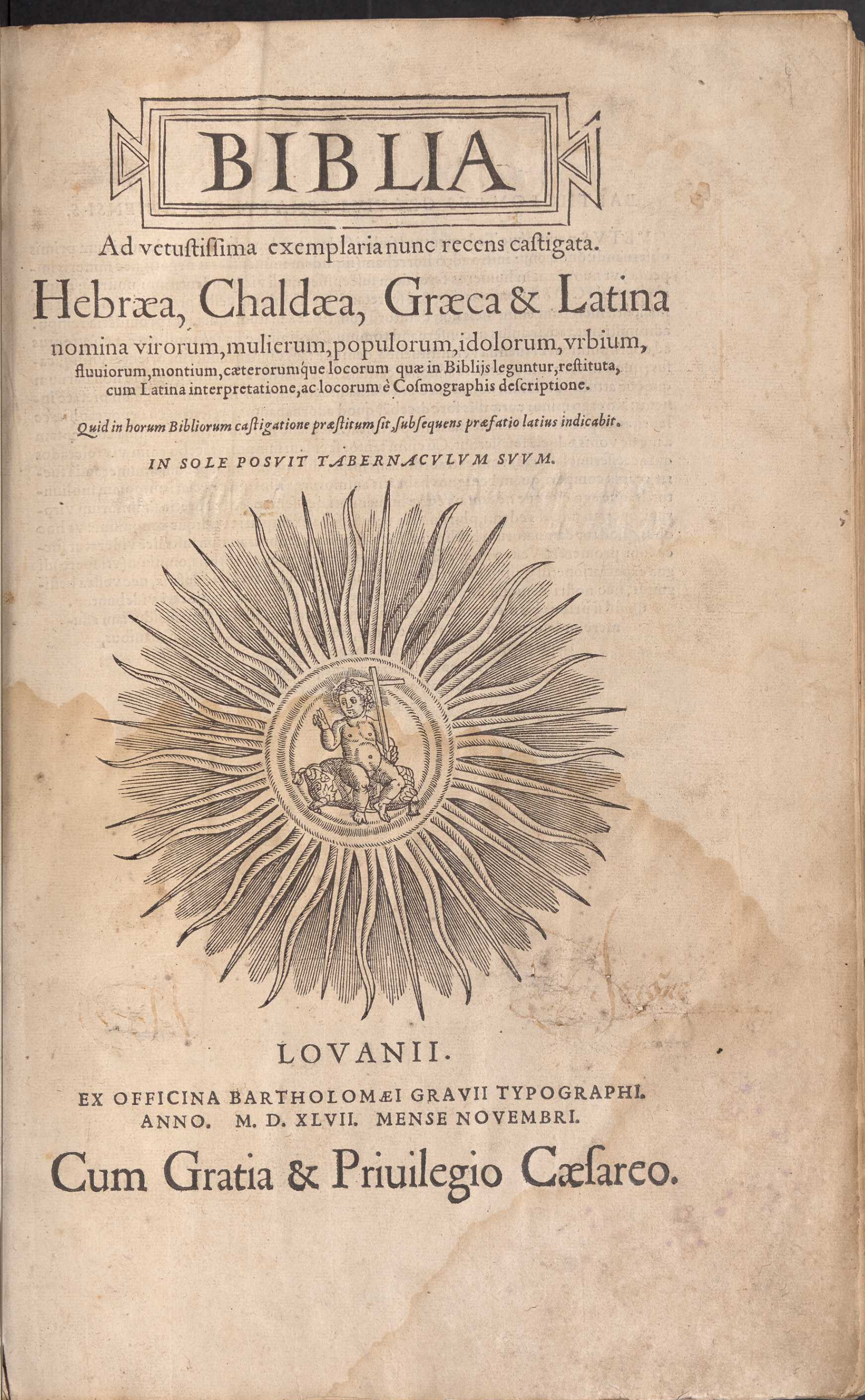 Biblia Vulgata lovaniensis (1547). The title reads: Biblia. Ad vetustissima exemplaria nunc recens castigata. Hebræa, Chaldæa, Græca & Latina nomina virorum, mulierum, populorum, idolorum, vrbitum, fluuiorum, montium, cæterorumque locorum quæ in Biblijs leguntur, restituta, cum Latina interpretatione, ac locorum è cosmographis descriptione.